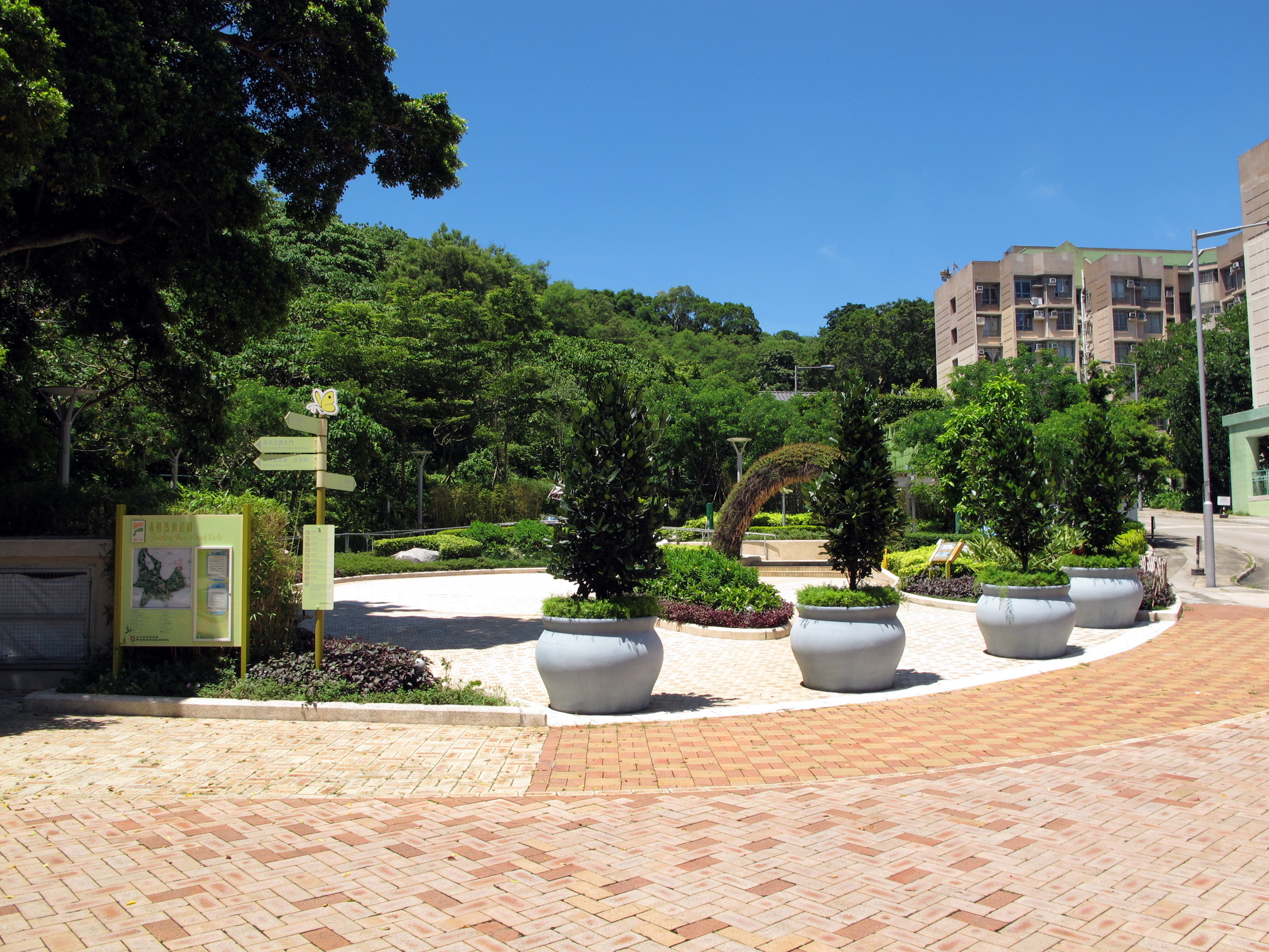 Stanley Plaza Ma Hang Park Entrance